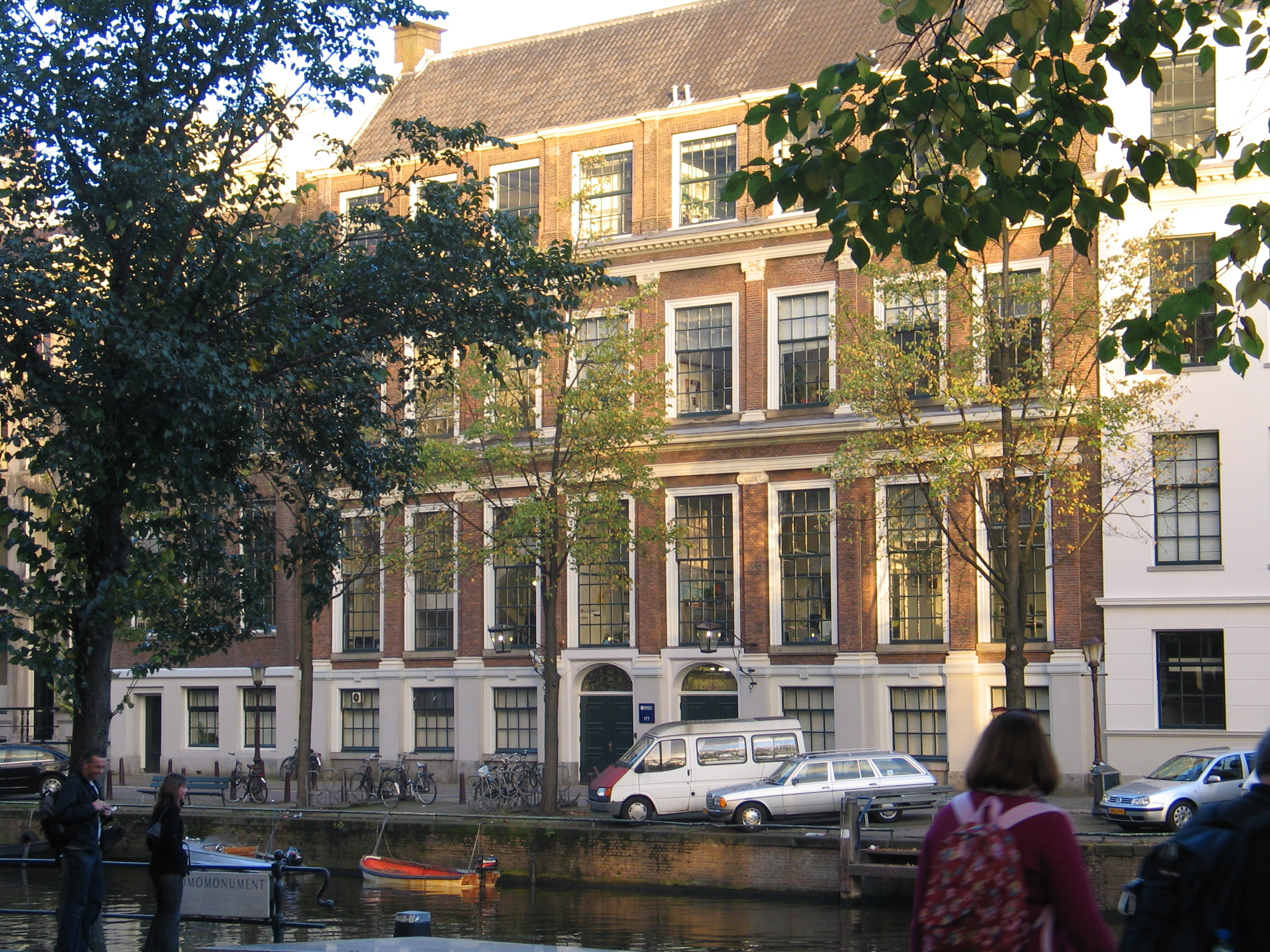 Detail of the mansion of the Coymans-families on Keizersgracht 177, Opposite Westerkerk, designed by Jacob van Campen. (Top floor was added in the 19th century)